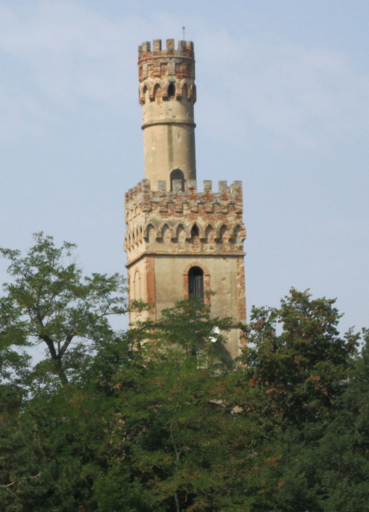 Verdun-sur-Garonne : Tour of so-called "de la reine Margot" castle in Tarn-et-Garonne department in France.